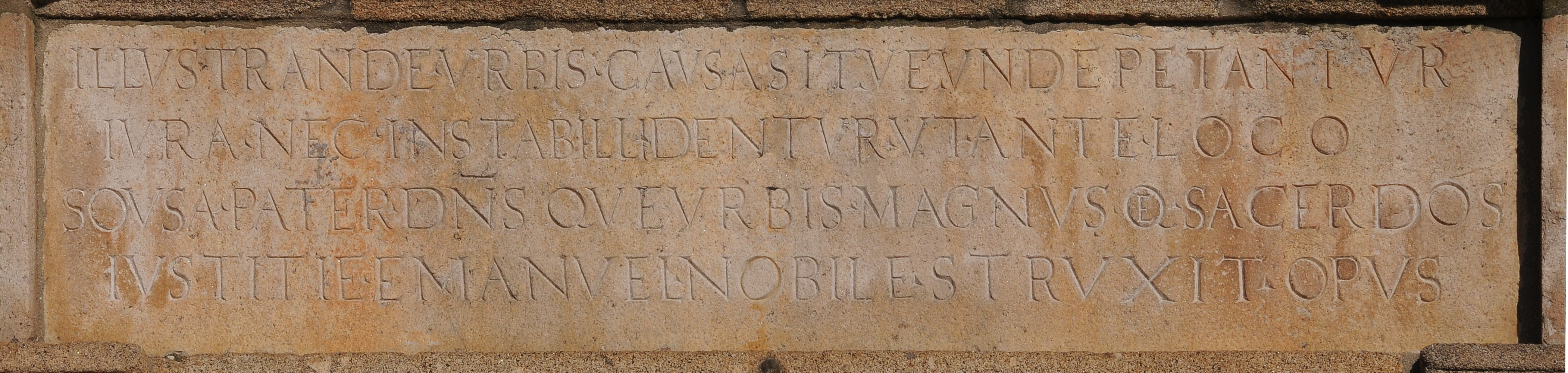 Plaque in Archiepiscopal Court, Braga, Portugal